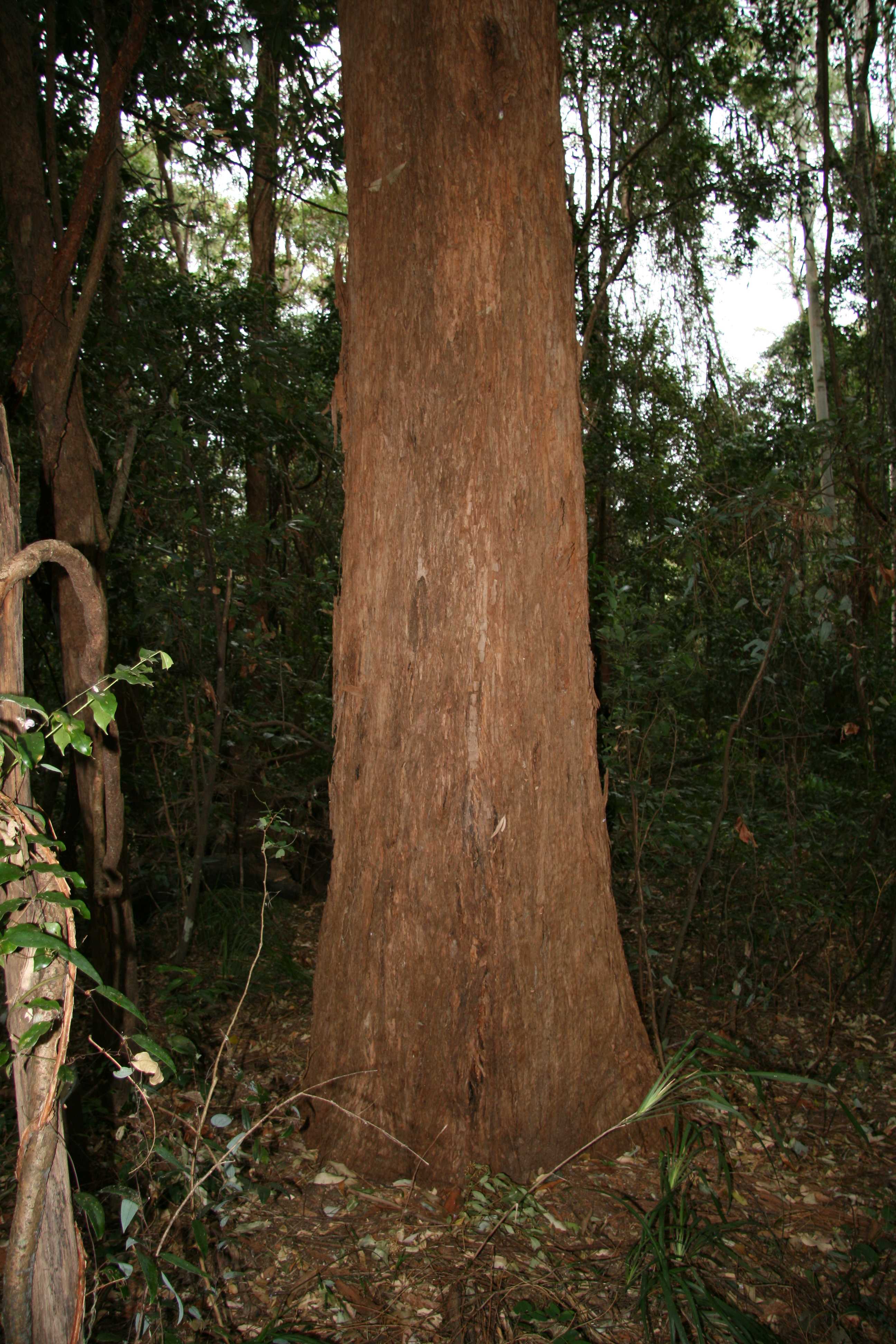 Eucalyptus microcorys, Alex Forest Conservation Area, Alexandra Headland, Sunshine Coast